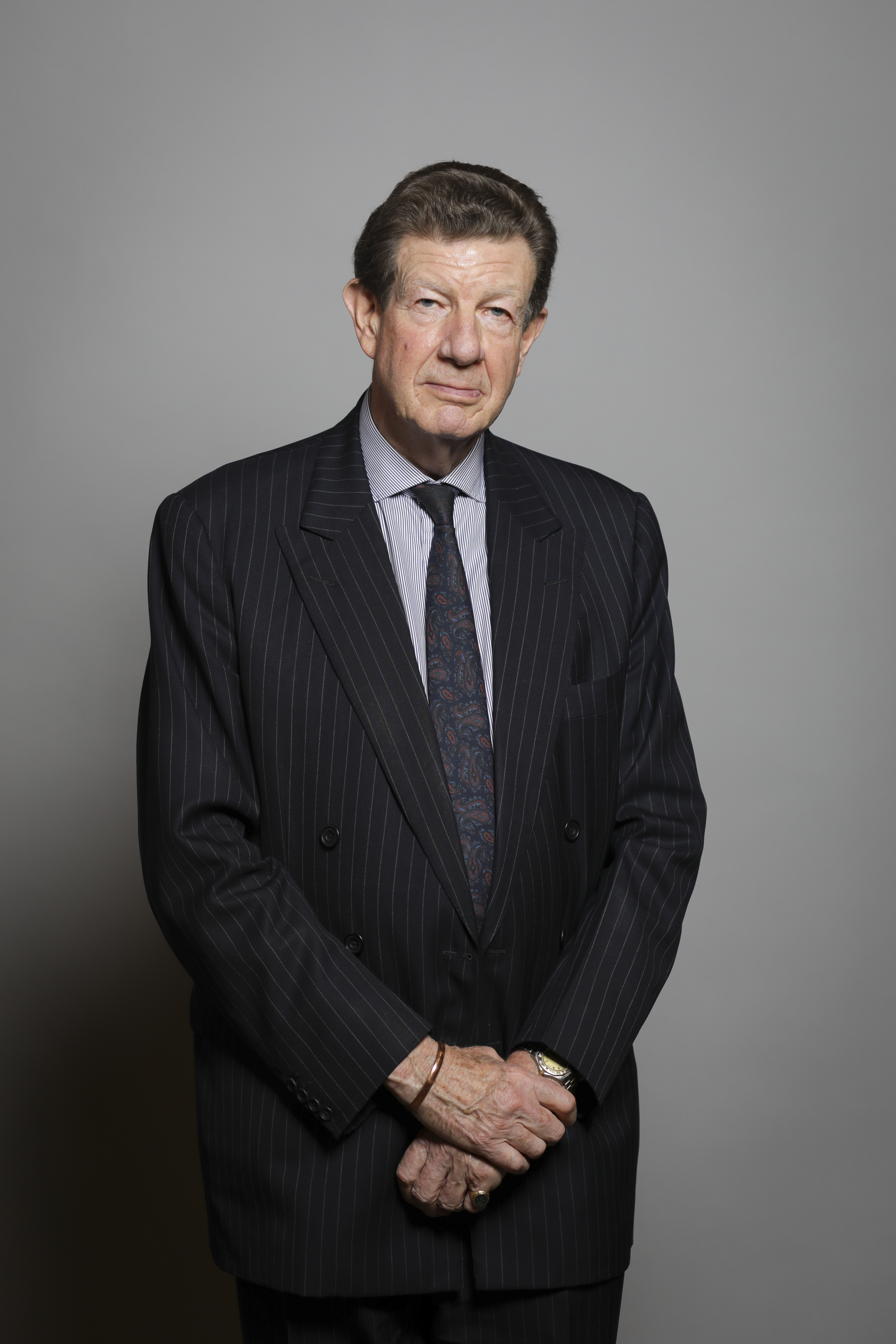 Official portrait of Earl Peel Full sized portrait of Earl Peel